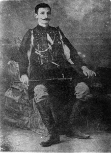 Hristos Papadopoulos